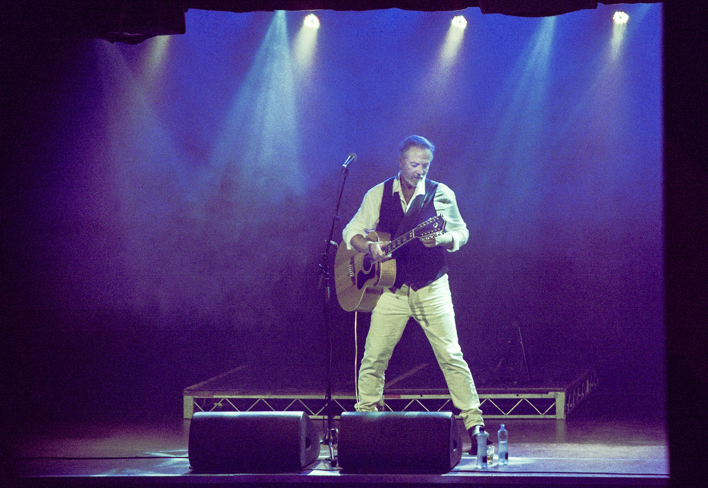 Steve Kilbey on stage with his 12 string Guild guitar during the 2nd solo set, part of a live 2 set acoustic show, performing 4 Church albums, at the Oxford Art Factory in Sydney on 1 August, 2020. The Church albums performed were Of Skins and Heart, Seance, The Blurred Crusade and Heyday.